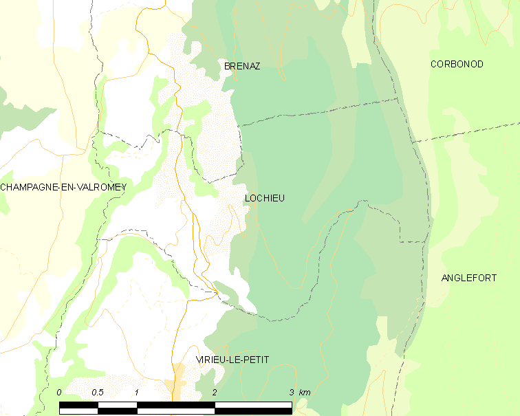 Map of French commune: Lochieu Map commune FR insee code 01218.png